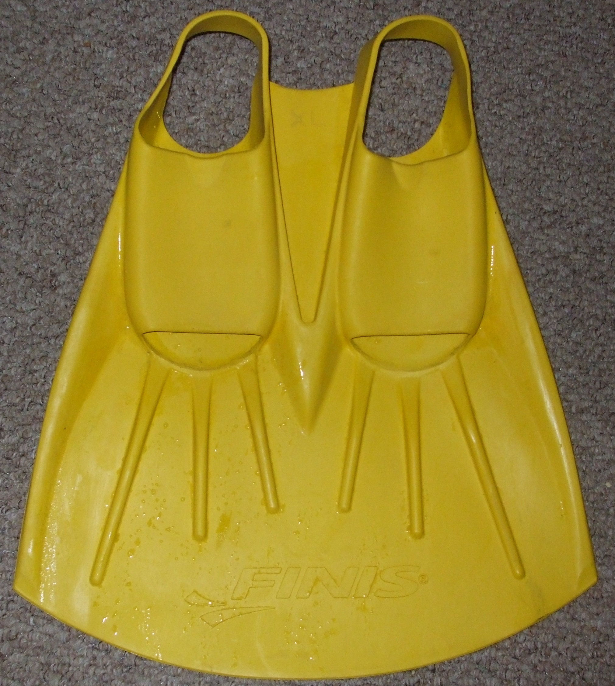 A standard monofin for competitive finswimming and open-water freediving use comes with a hard blade that may cause injury to others if it is used for swim training in a pool with many swimmers present. An all-rubber monofin has a softer blade that is less likely to cause injury to others. It may therefore be safer for swimming pool workouts as well as being easier on the feet of younger or less experienced swimmers.